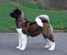 Championship Show winning American Akita bitch